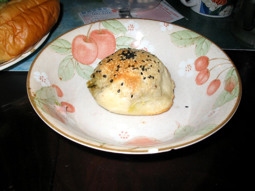 Hujiao bing